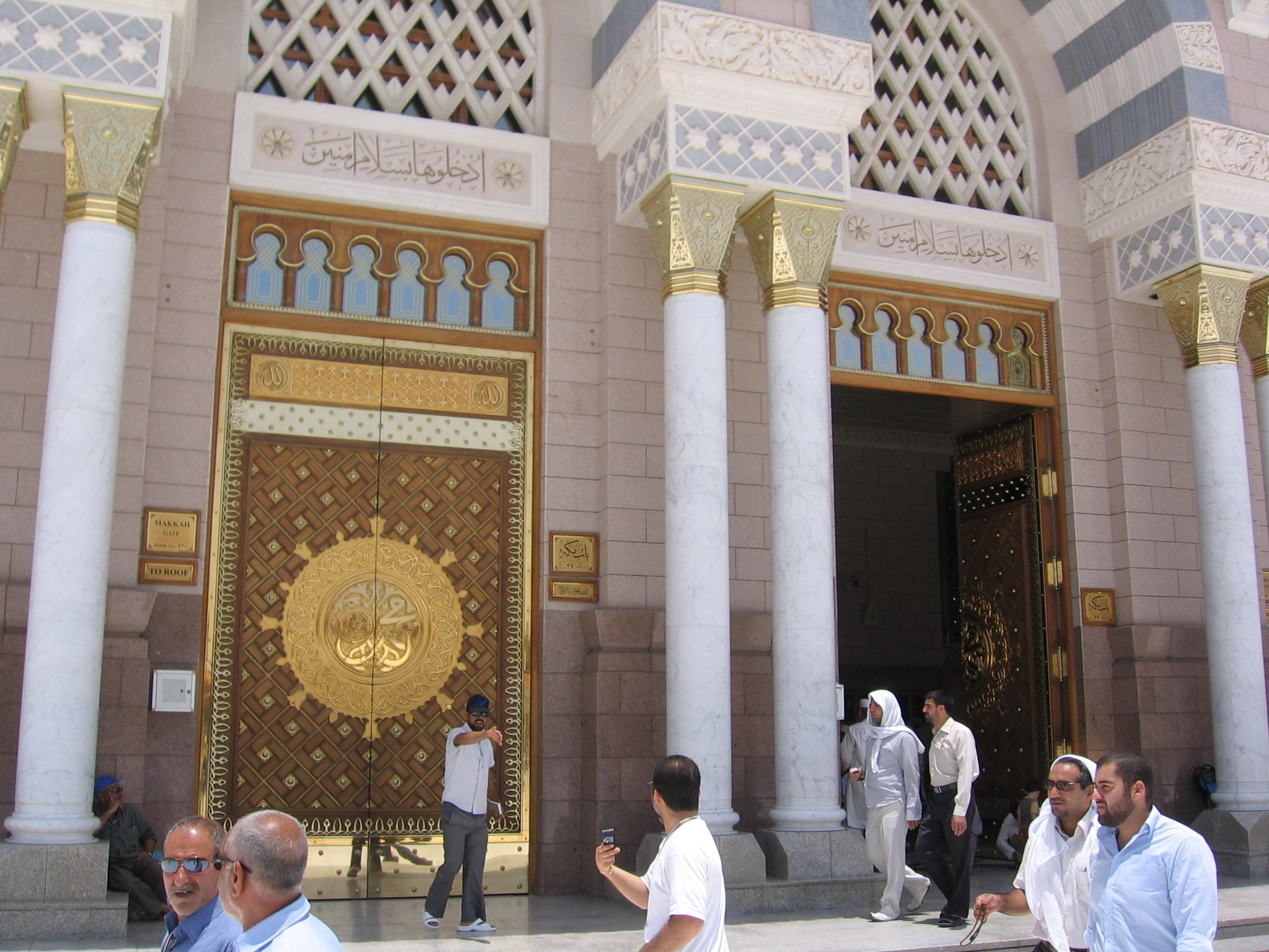 Al-Masjid al-Nabawi in Medina Saudi Arabia